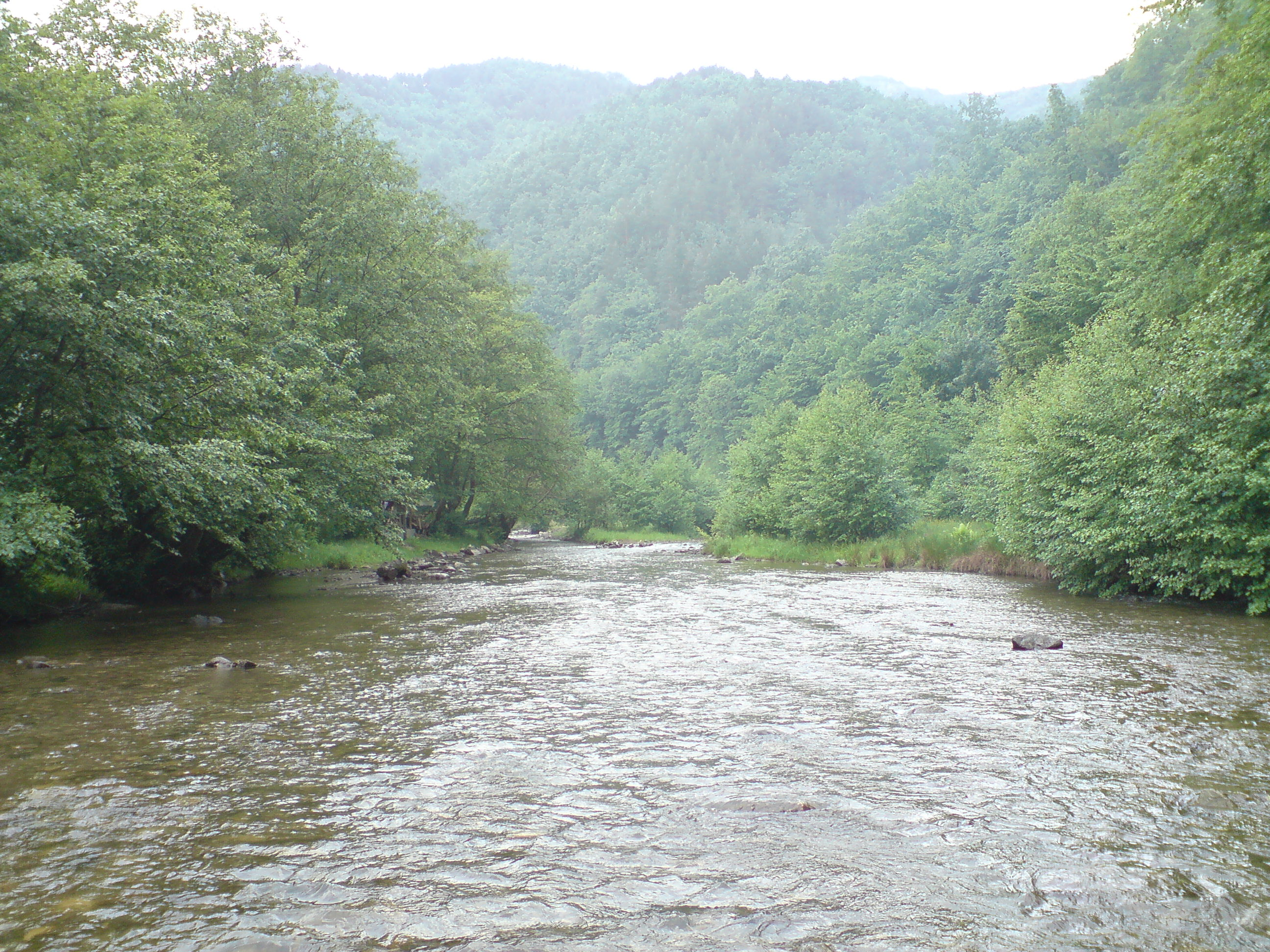 the Cerna river near Hășdău village, Hunedoara County, Romania